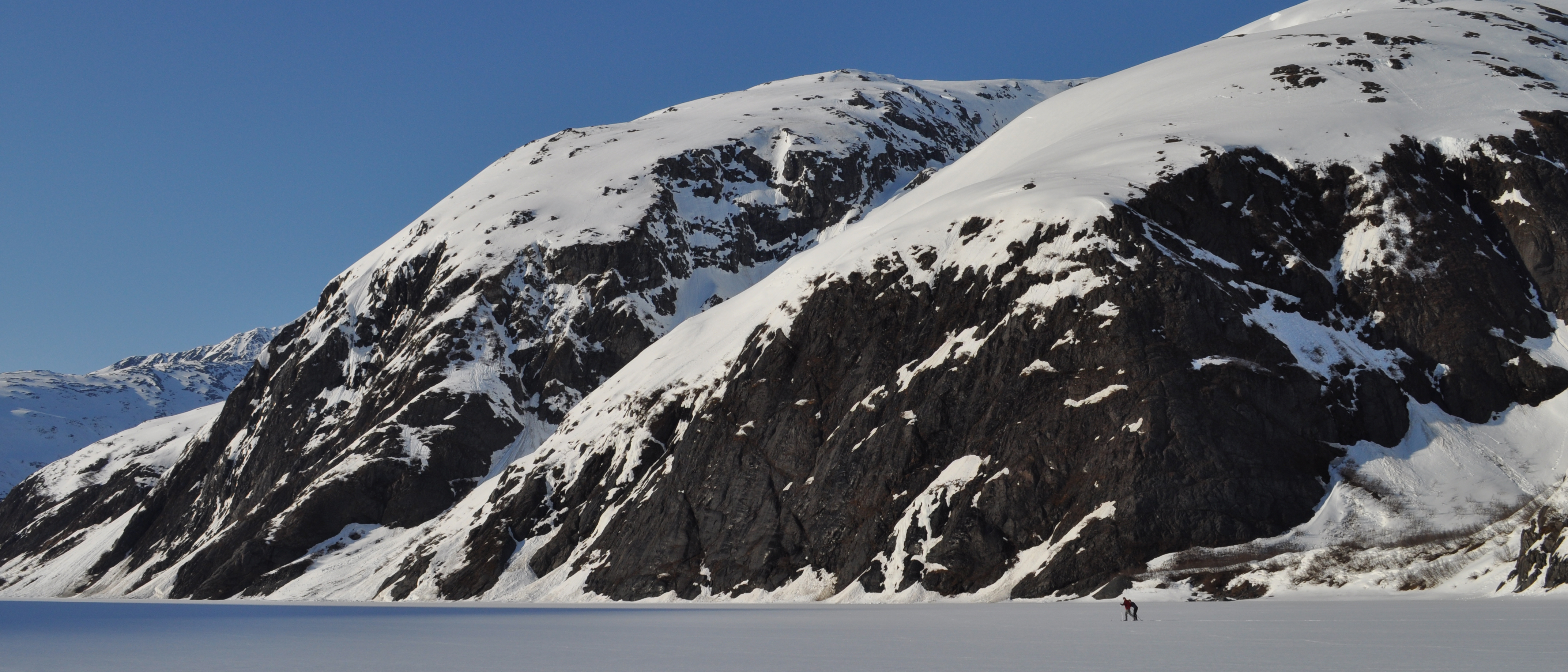 Skiing across Portage Lake in spring. Chugach National Forest, Alaska.